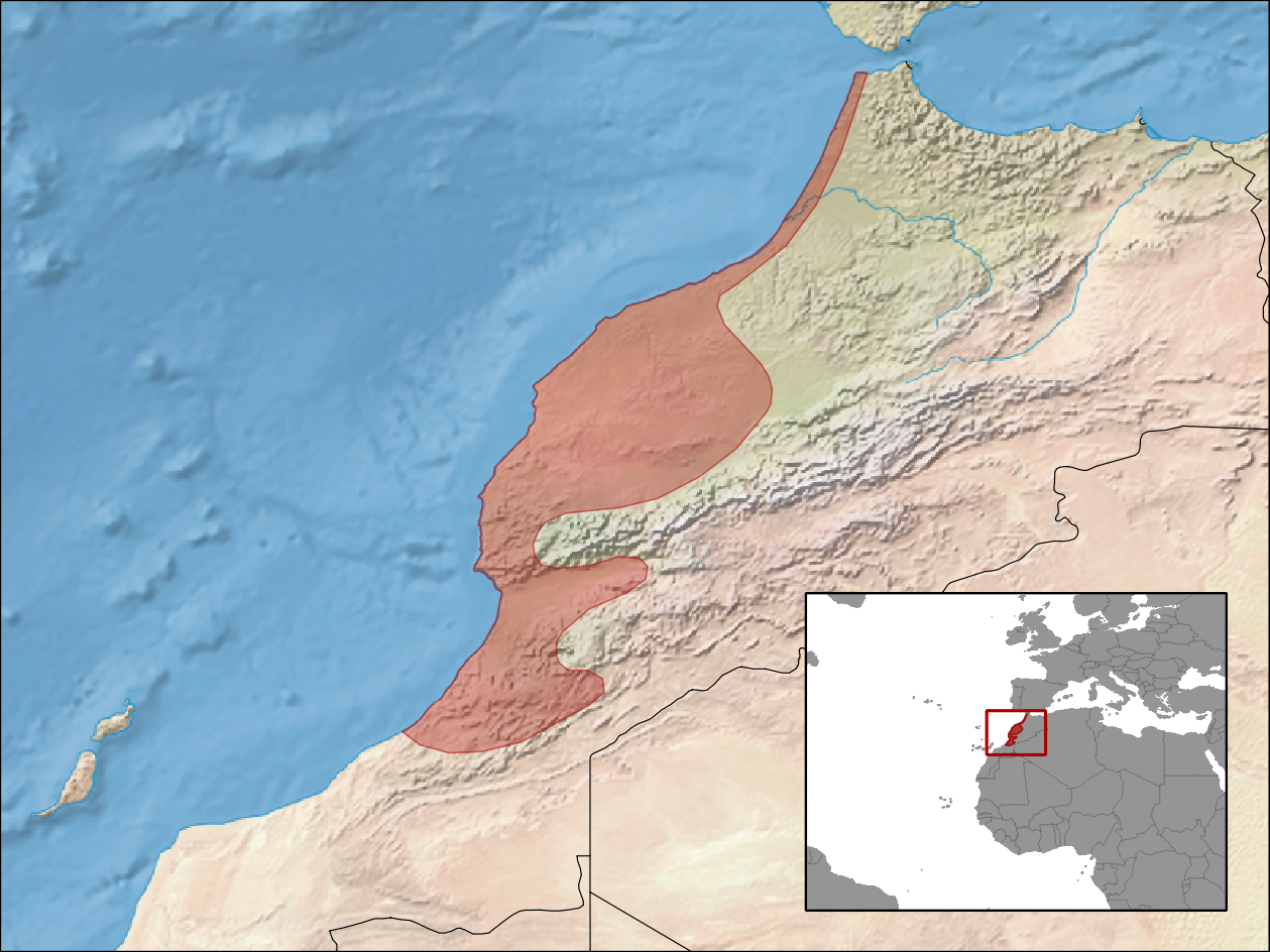 geographic distribution of Chalcides mionecton